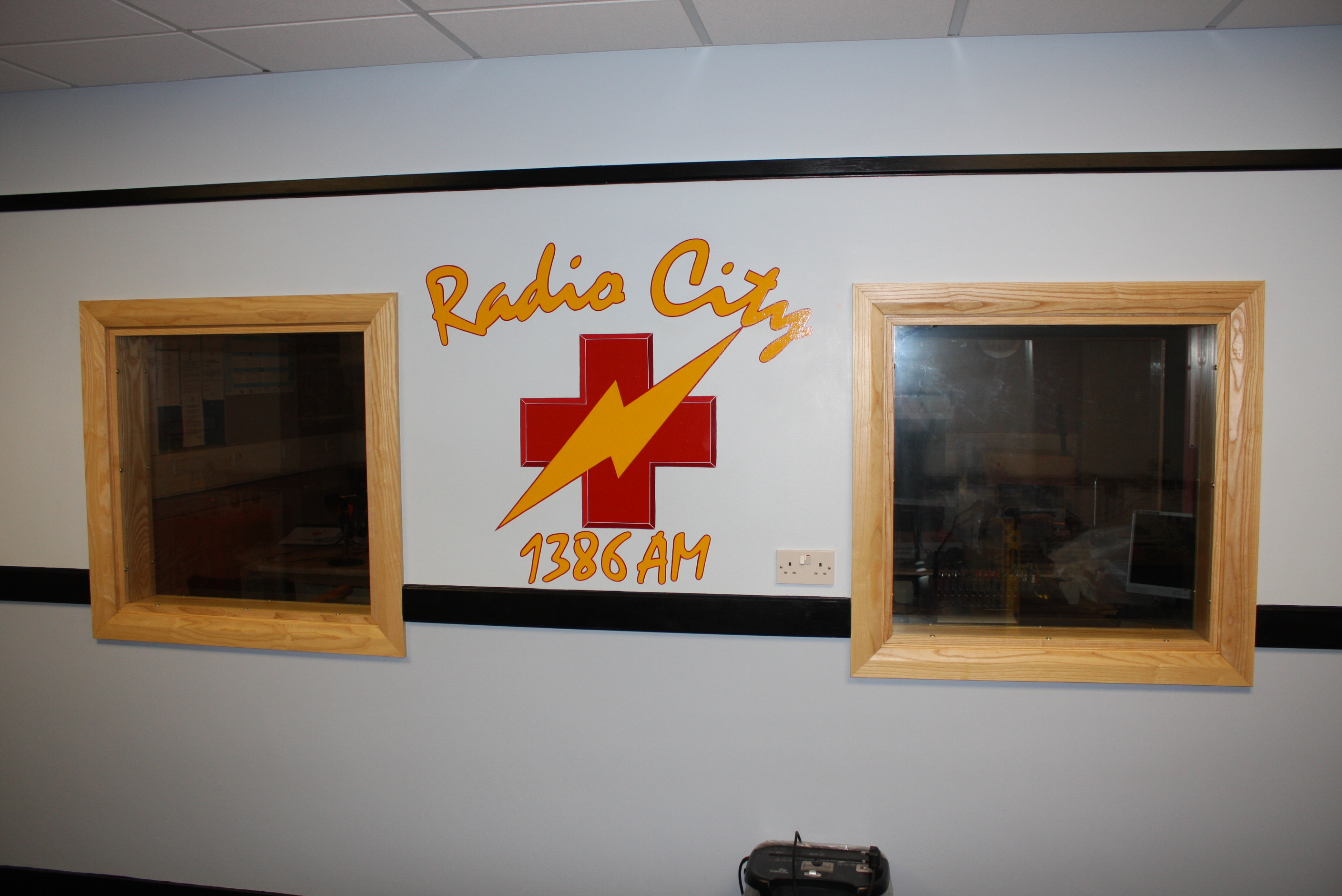 The main reception area in Radio City 1386AM, located at Singleton Hospital, Swansea.